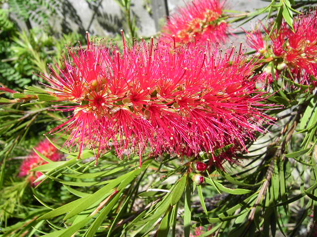 Red bottlebrush flower (Callistemon citrinus).